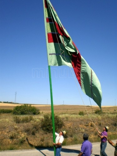 Pendón de Villavente de la Sobarriba en las fiestas comarcales de la Sobarriba en Valdefresno